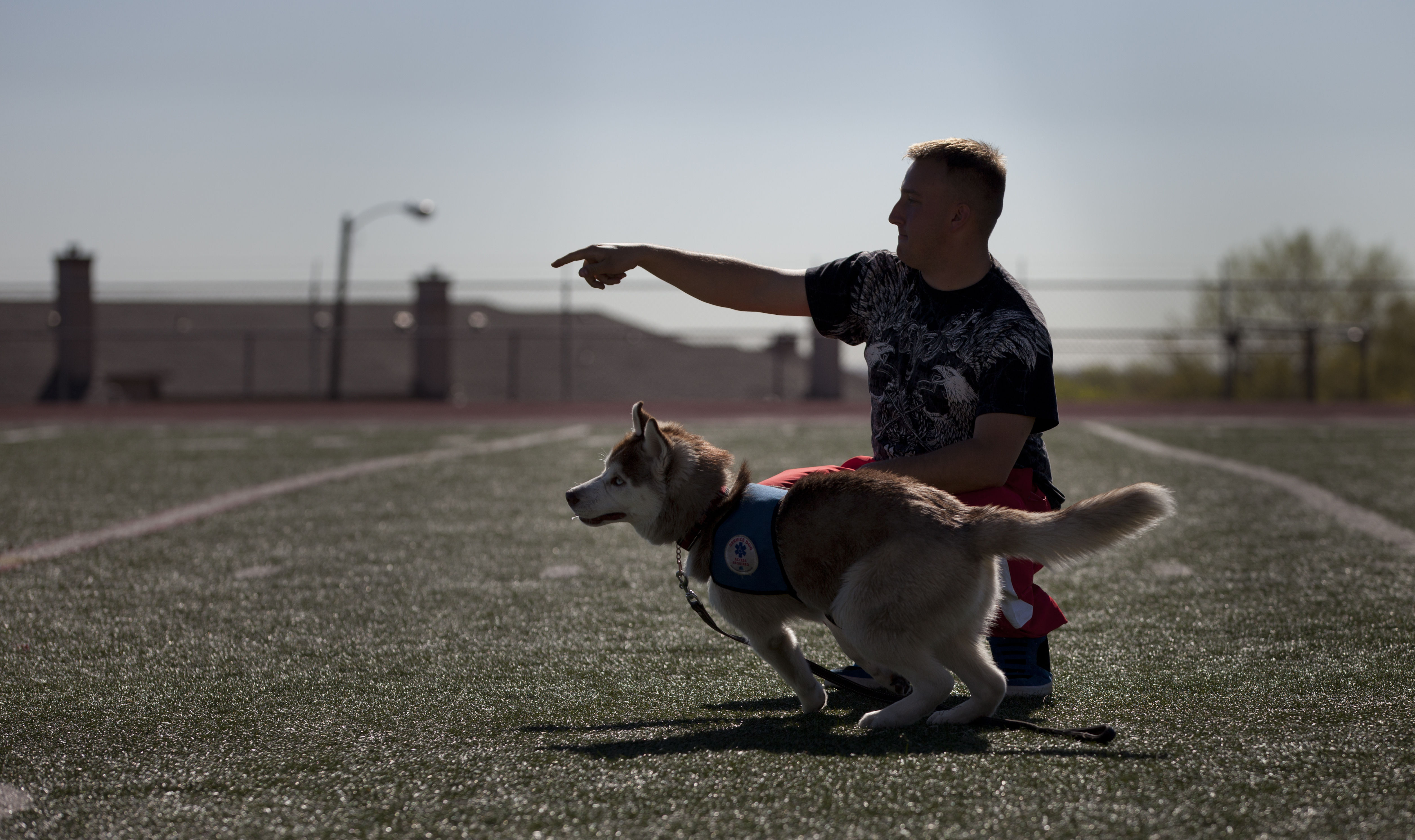 A Marine wounded warrior throws a stick for Koja, Cpl. Kionte Storey's service dog, during track practice for the 2012 Wounded Games at Colorado Springs, Colo., April 23, 2012. Storey, a below-knee amputee and native of Stockton, Calif., is currently training Koja, a seven-month-old Siberian Husky, to assist him. Storey will be competing in swimming and track as part of the Warrior Games. (U.S. Marine Corps photo by Lance Cpl. Chelsea Flowers)